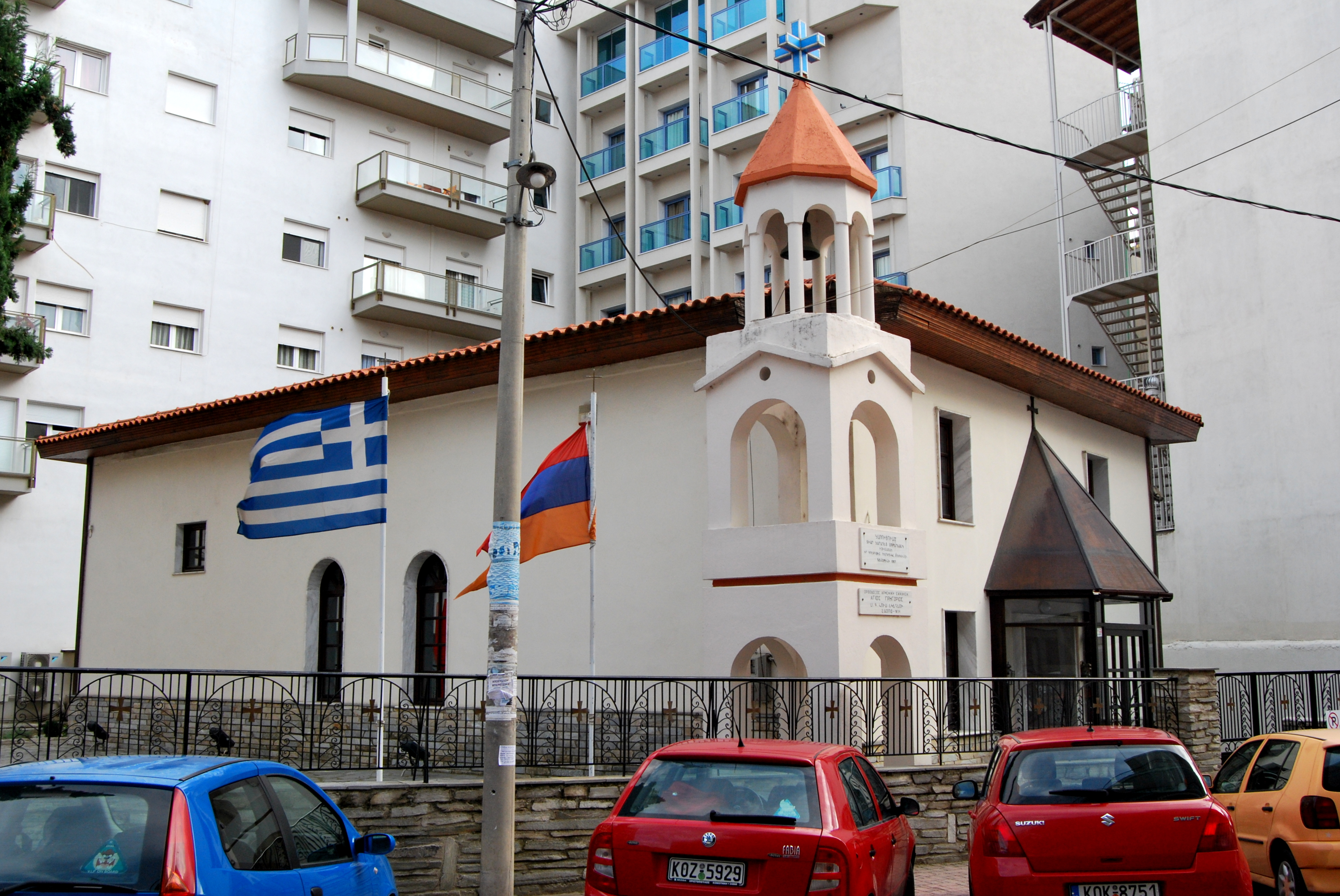 Armenian church of St. Gegory the Illuminator (Sourp Krikor Lousavorits) - 1834, Komotini, Rhodope, Greece.